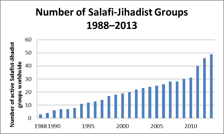 Number of active Salafist-jihadist groups worldwide by year 1988-2013, data from A Persistent Threat, The Evolution of al Qa’ida and Other Salafi Jihadists, Seth G. Jones, 2014, Figure 3.1